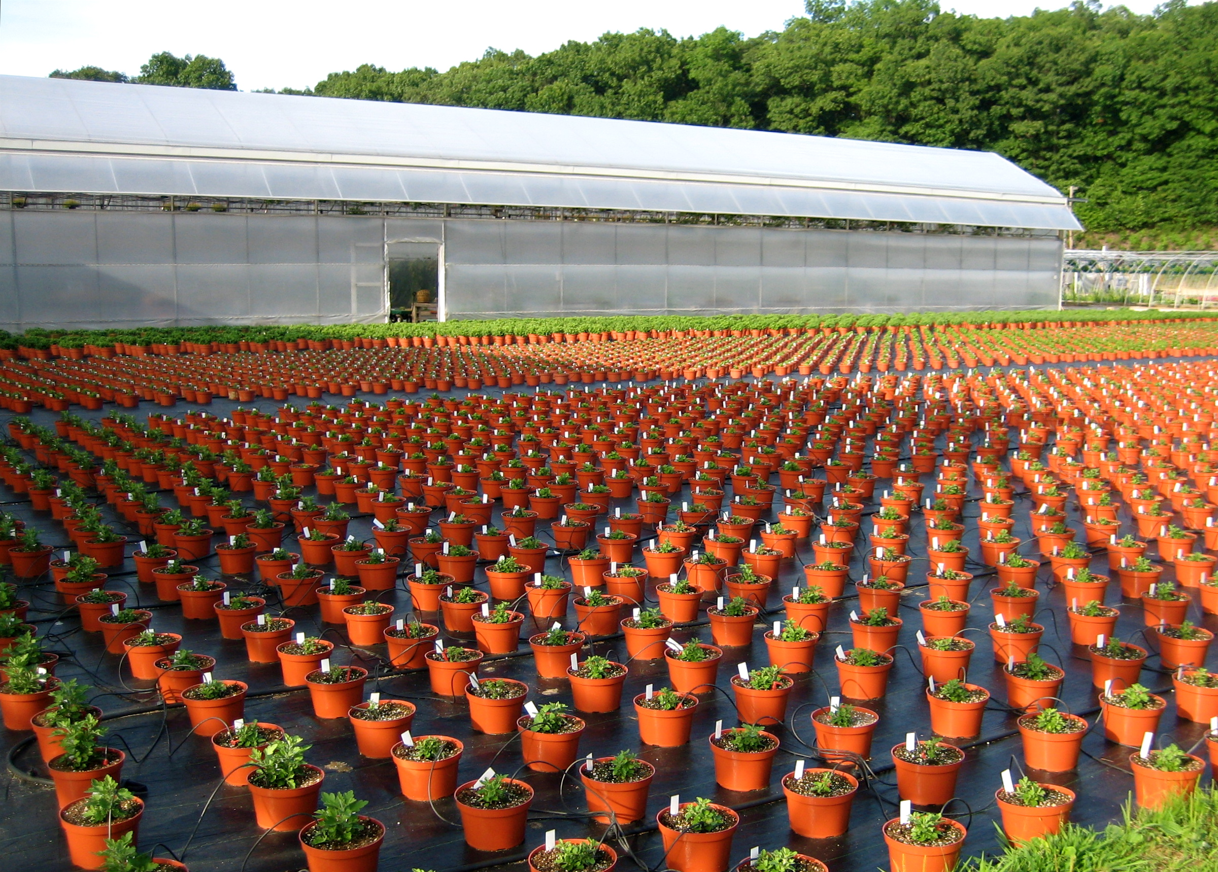 Potted Chrysanthemums in a plant nursery